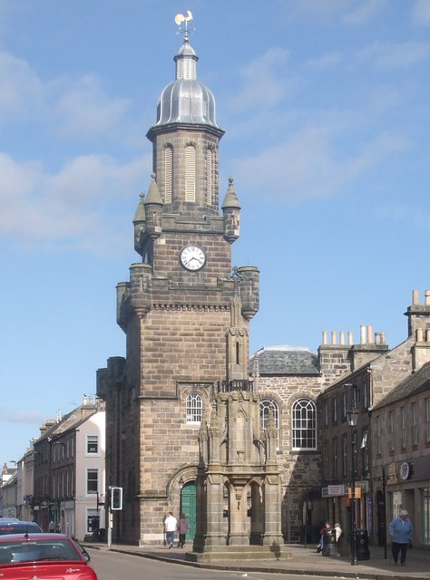 Forres Tollbooth, near to Forres, Moray, Great Britain. The Tollbooth and Market Cross on the High Street of the market town of Forres. The building once housed the local court.